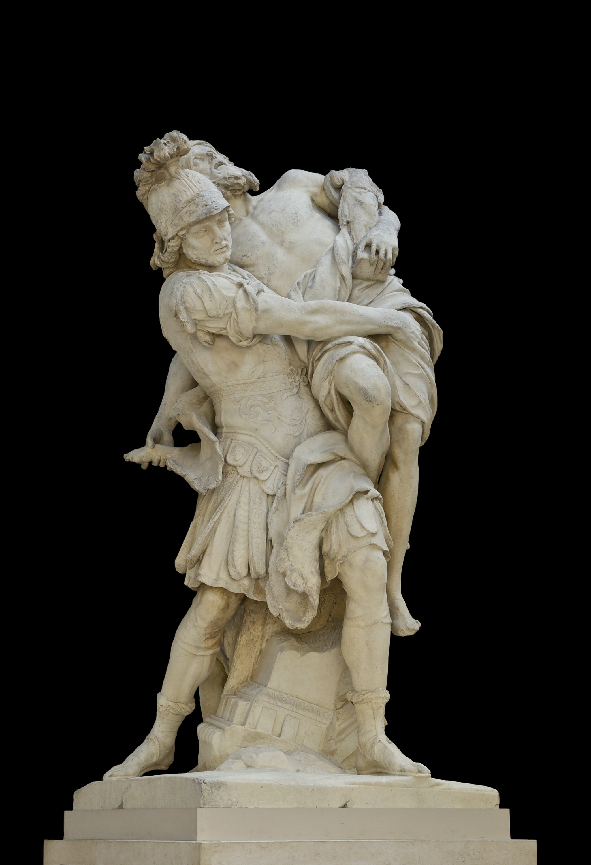 Aeneas, supporting his old father Anchises, escapes from burning Troy. Anchises carries the palladium, image of Pallas, wich will become the sacred emblem of the Romans.